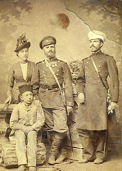 Vladimir Karamanov and Vesa Paspaleeva